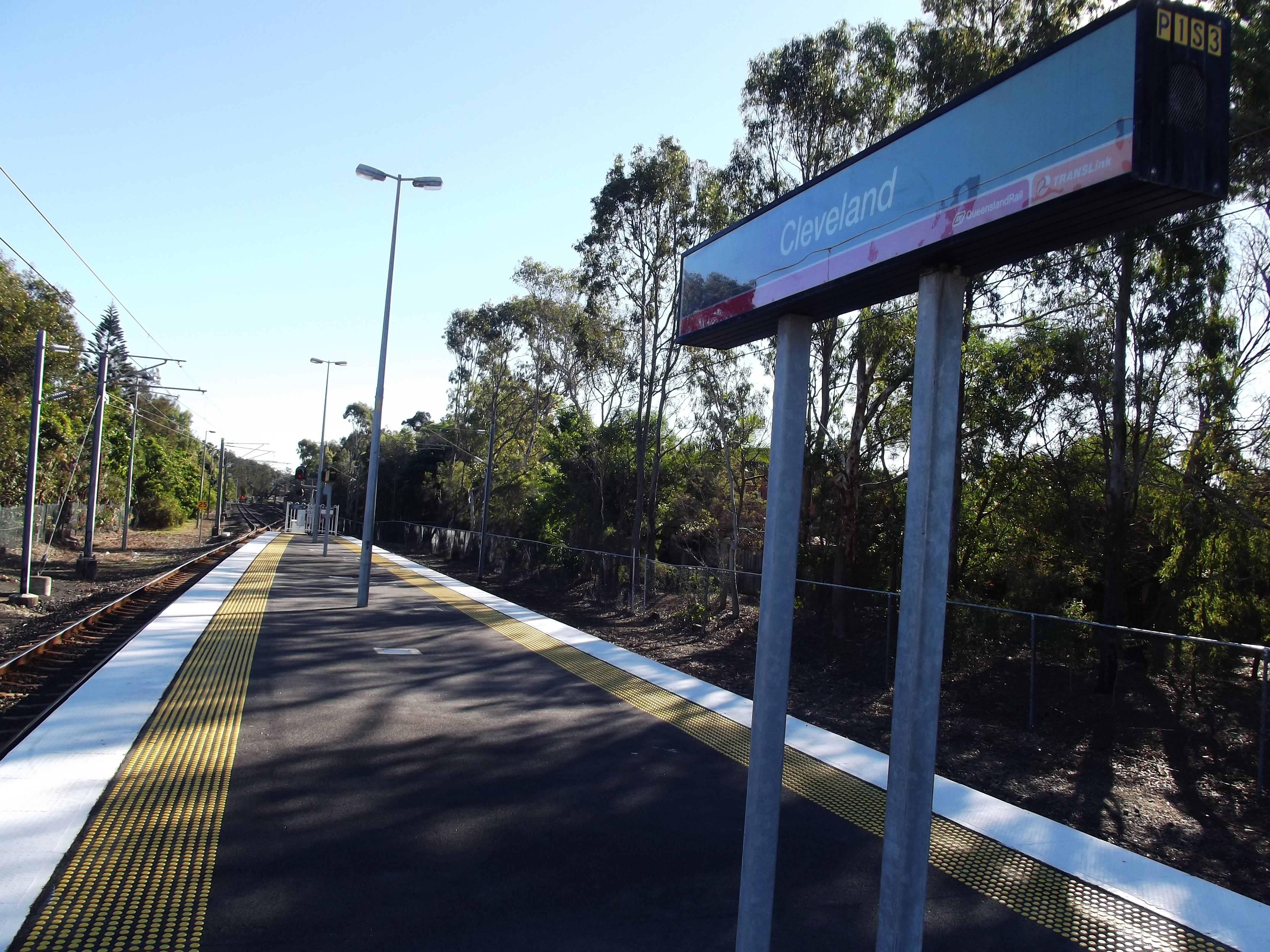 A photo of the Cleveland railway station operated by TransLink, located in Brisbane, Queensland.